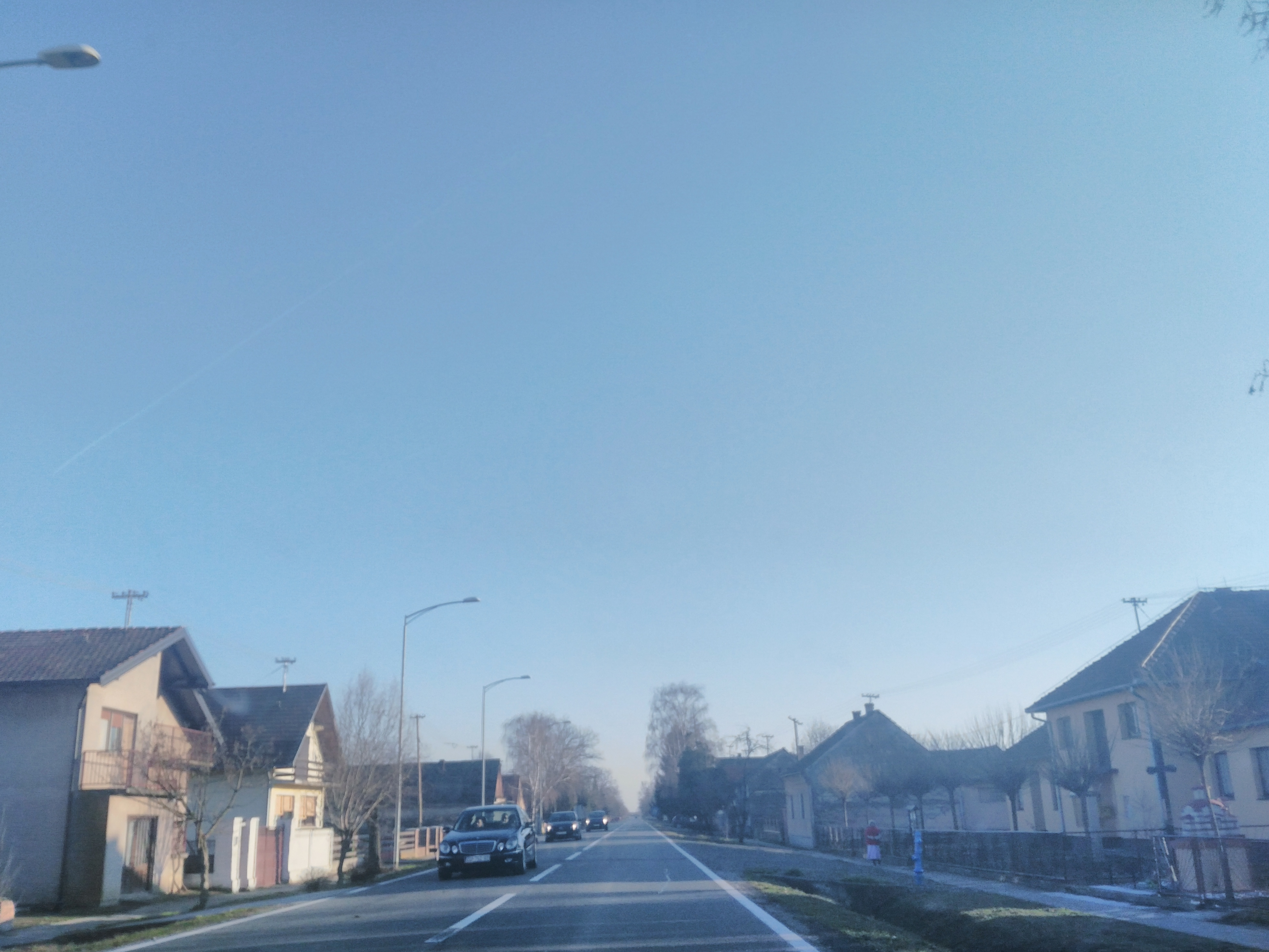 Ada (Serbian Cyrillic: Ада) is a village in Croatia, municipality Šodolovci, Osijek-Baranja County.